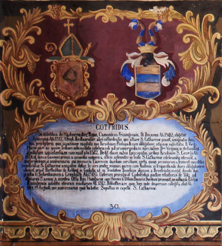 Wappentafel von Gottfried von Hexenagger, Fürstbischof von Freising, im Fürstengang zwischen Fürstbischöflicher Residenz und Freisinger Dom. Links das geistliche, rechts das persönliche Wappen, darunter ein lateinischer Text mit kurzer Biographie.